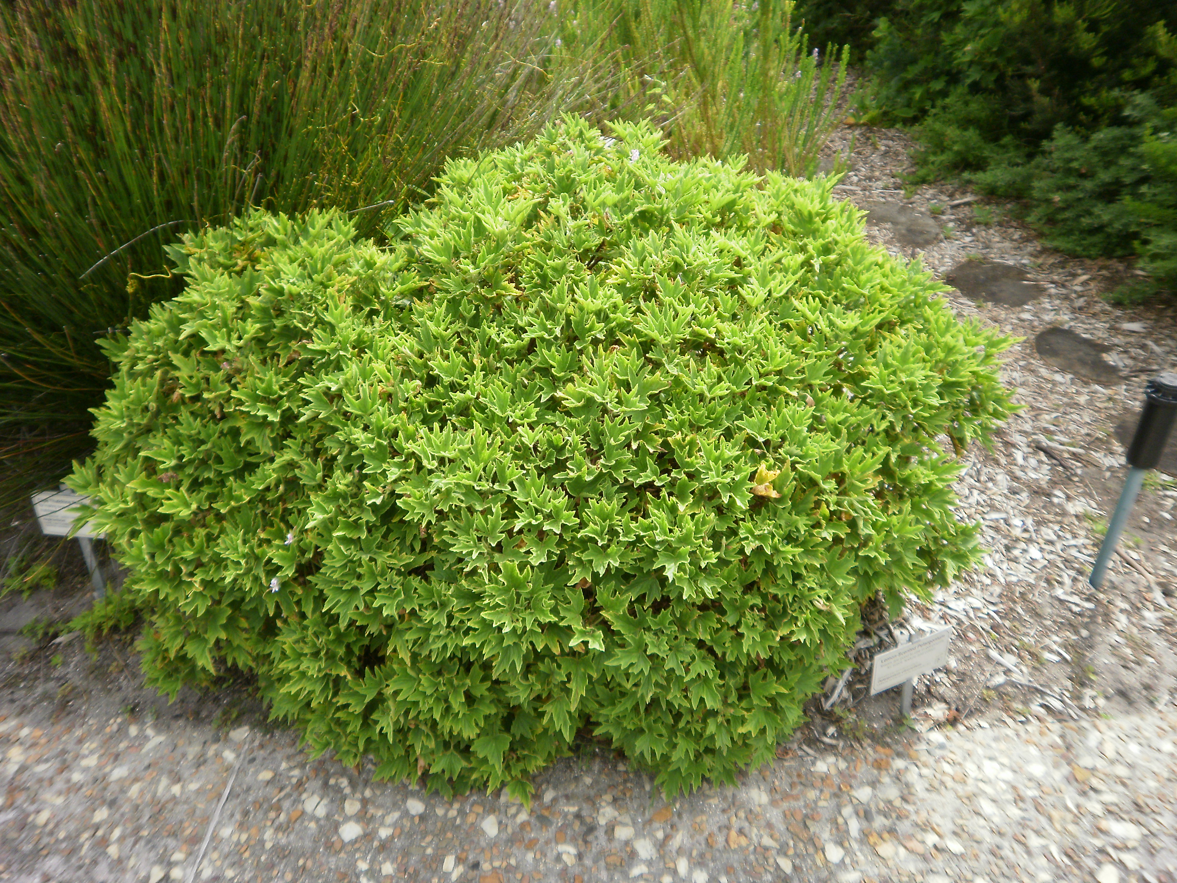 Pelargonium citronellum. Cape plant grown in a garden in South Africa.